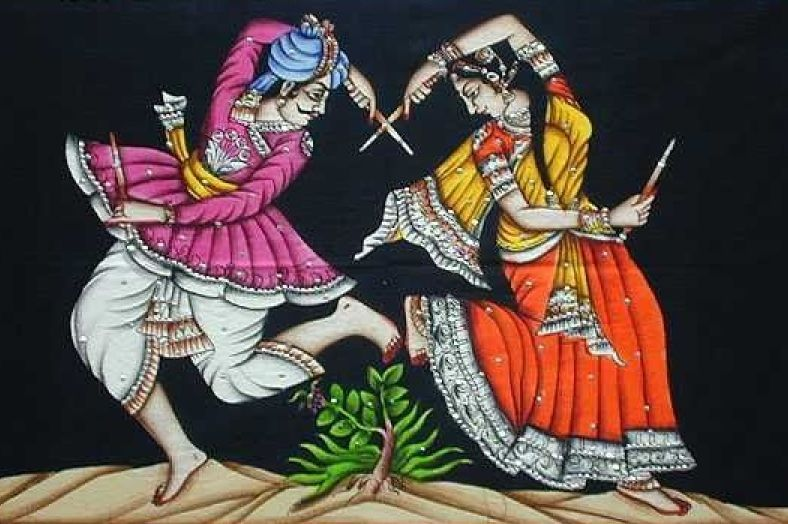 रास अथवा दांडिया रास एक सांस्कृति निरत्य है जो गुजरात के भारत मे मनाया जाता है